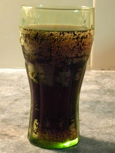 Glass of cola